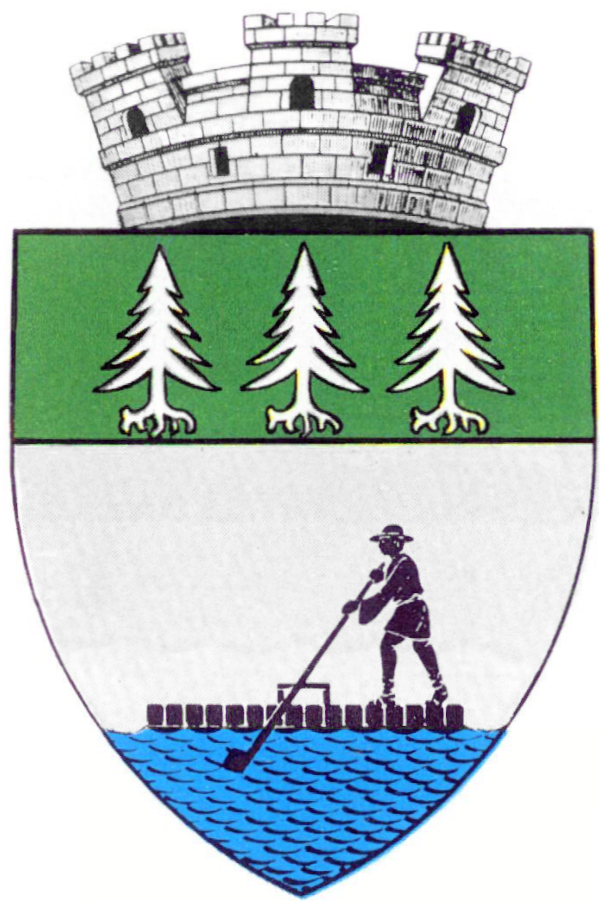 Interwar coat of arms of Vyzhnytsia, Storojineț County, Kingdom of Romania.